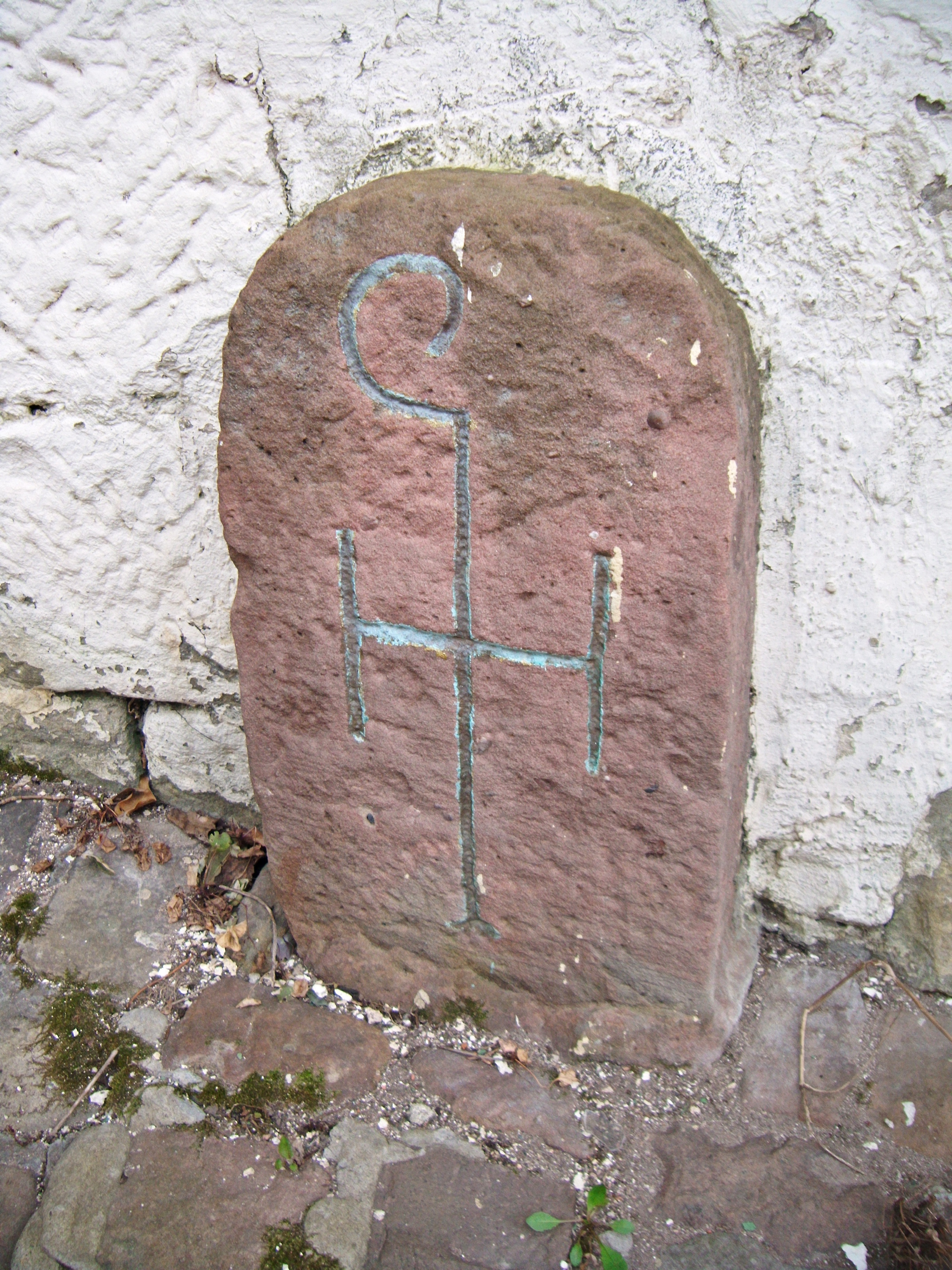 Kloster Heilsbruck, Edenkoben, Grenzstein mit Klostermonogramm